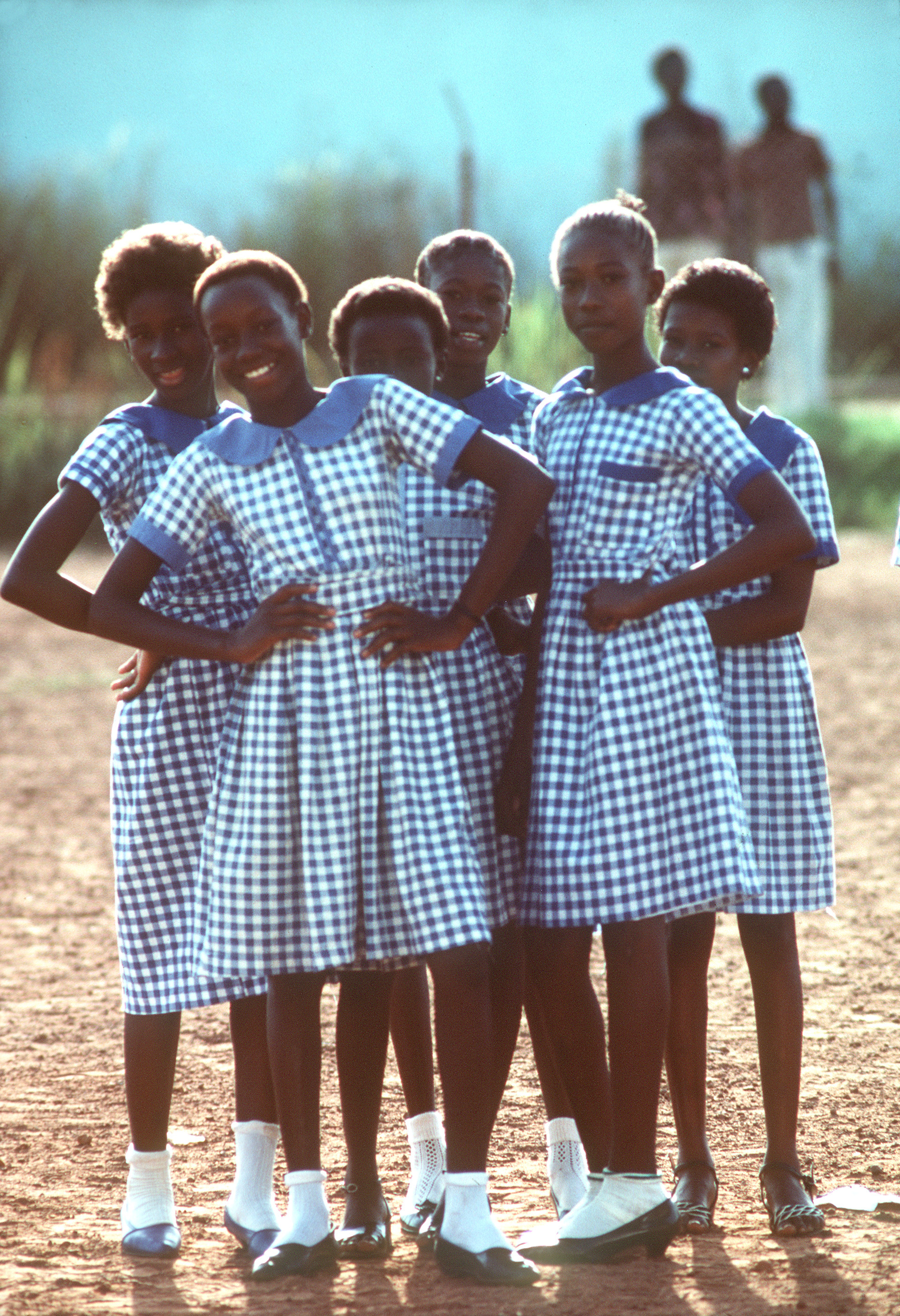 The children of Sir Dawda Elementary School dressed in their best uniforms to show their appreciation for the help of the crewmen from the frigate USS JESSE L. BROWN (FF 1089) in repairing and painting their school. Photo from April 1984 All Hands Magazine.